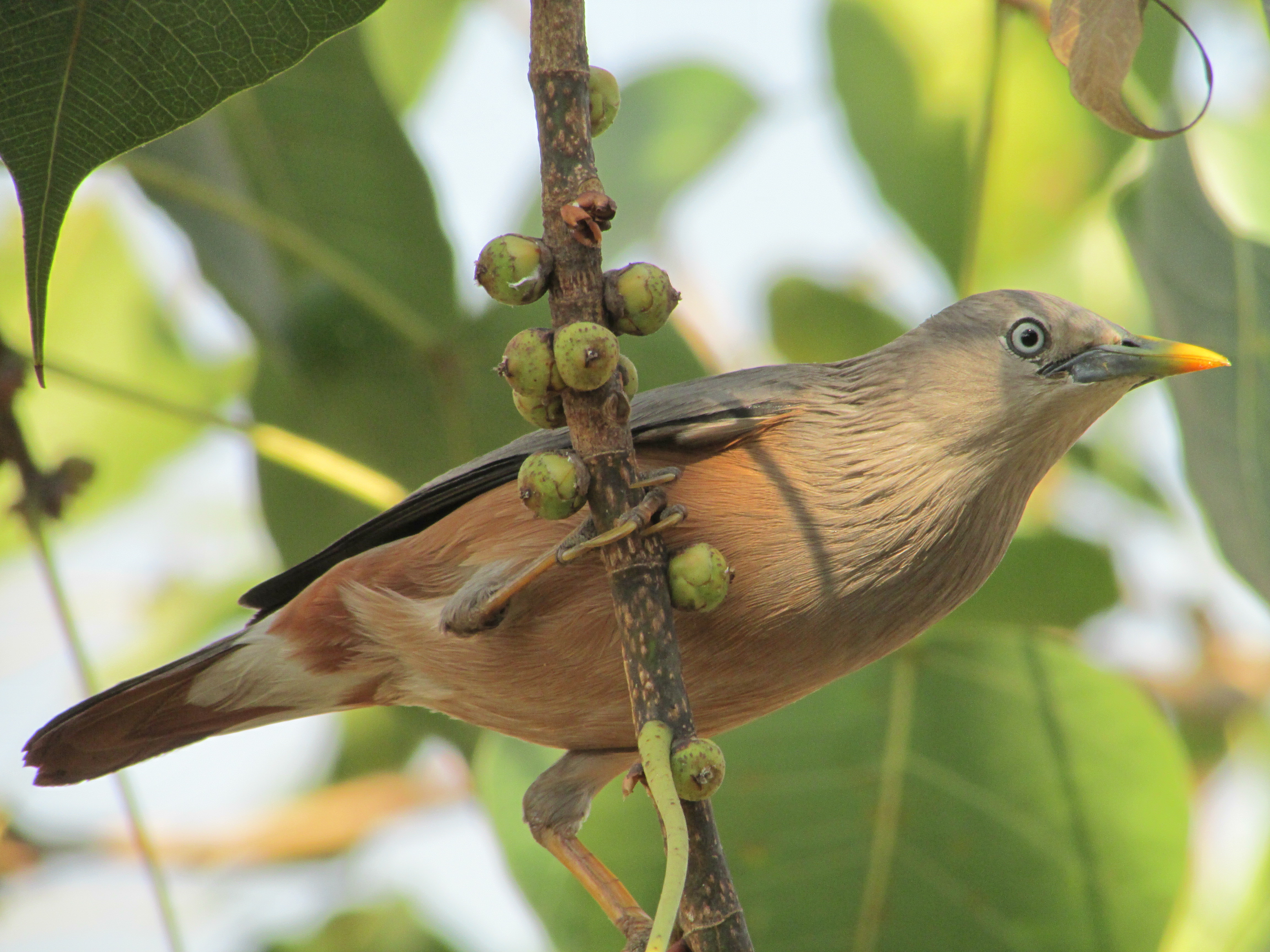 An adult on twig